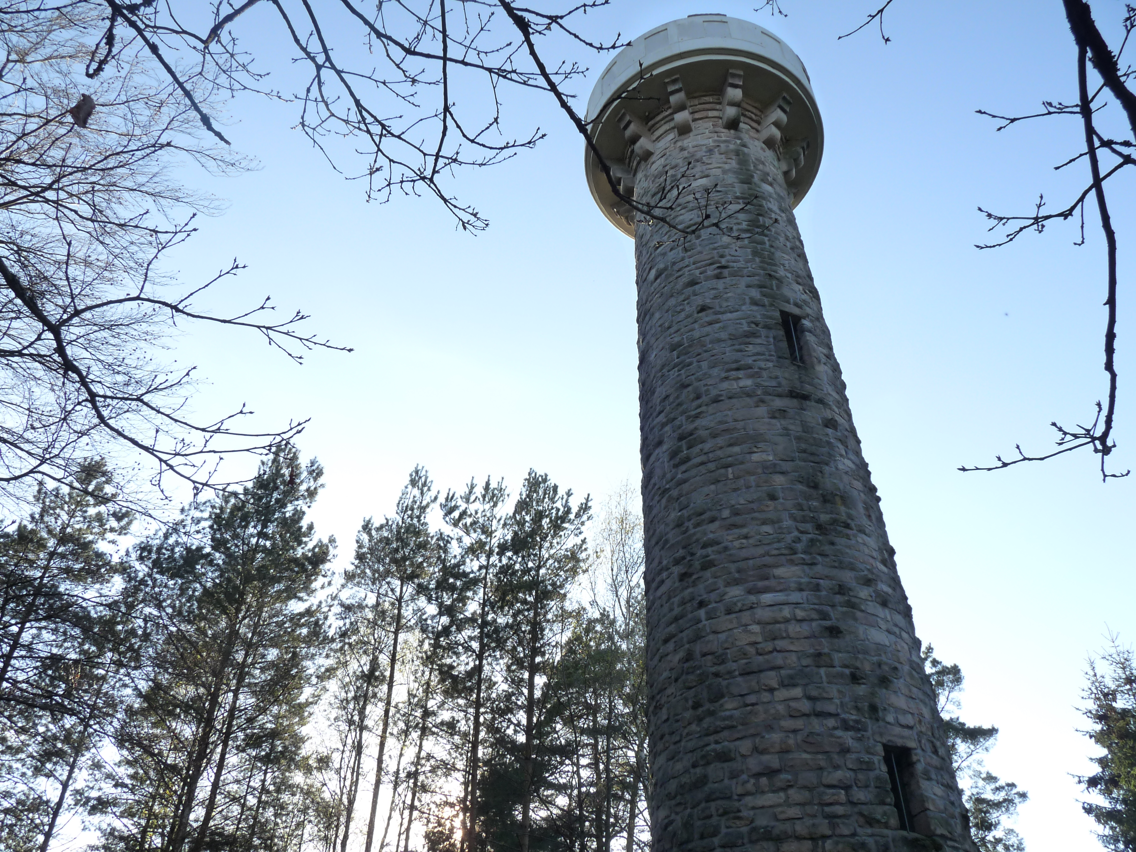 Lucas Cranach lookout tower (Lucas-Cranach-Turm) near Kronach, Germany. Photograph taken on an afternoon in April 2010.